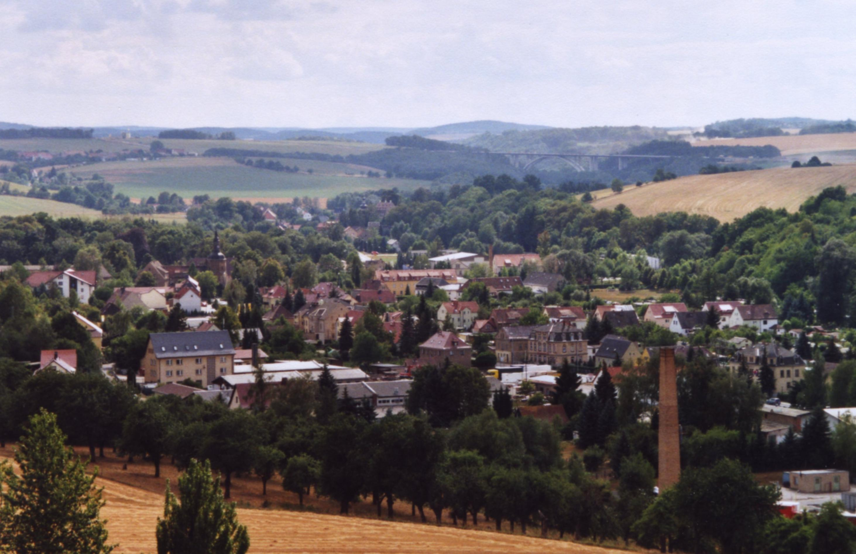 This image shows Pirna-Zehista with the Seidewitztalbrücke of the Bundesautobahn 17 in the background.